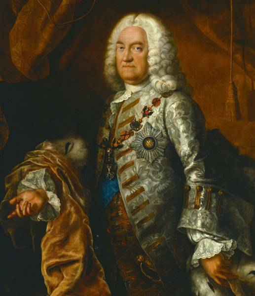 Portrait of Christian Ludwig II, Duke of Mecklenburg-Schwerin (1683-1756), with the collar and star of the Order of Saint Andrew